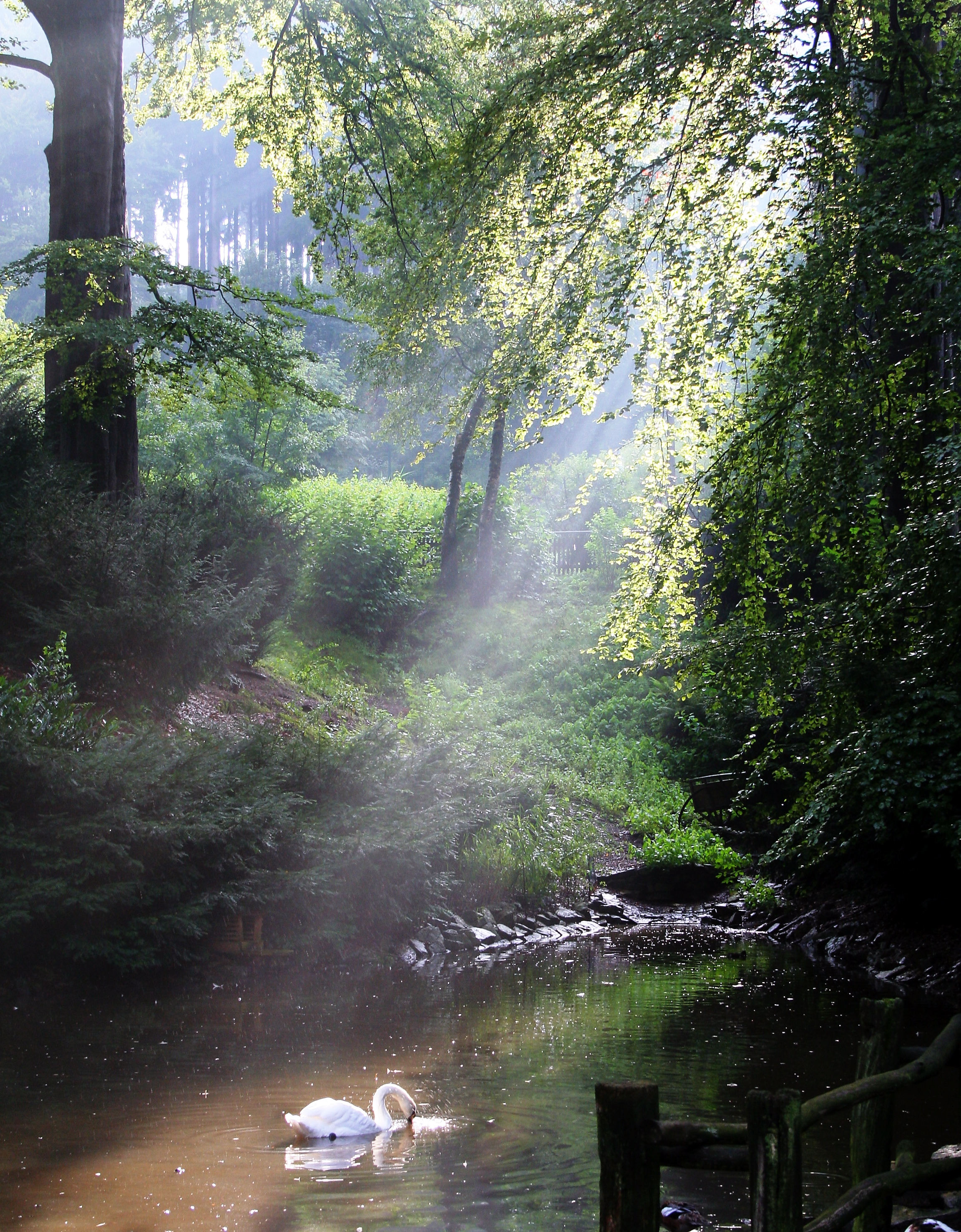 Sun shining through leaves and mist on a Swan splashing in the water, Tierpark Olderdissen, Germany.